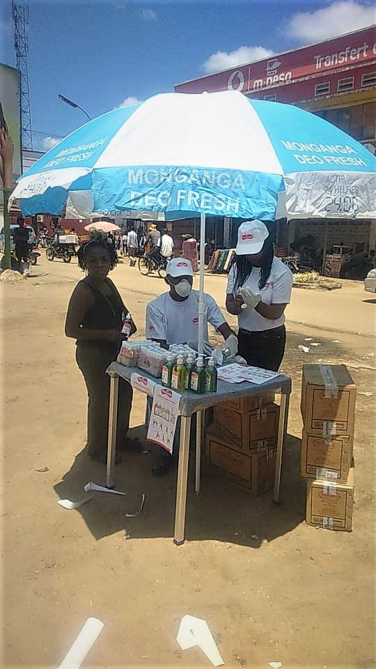 This is an image with the theme "Africa on the Move or Transport" from: Democratic Republic of the Congo